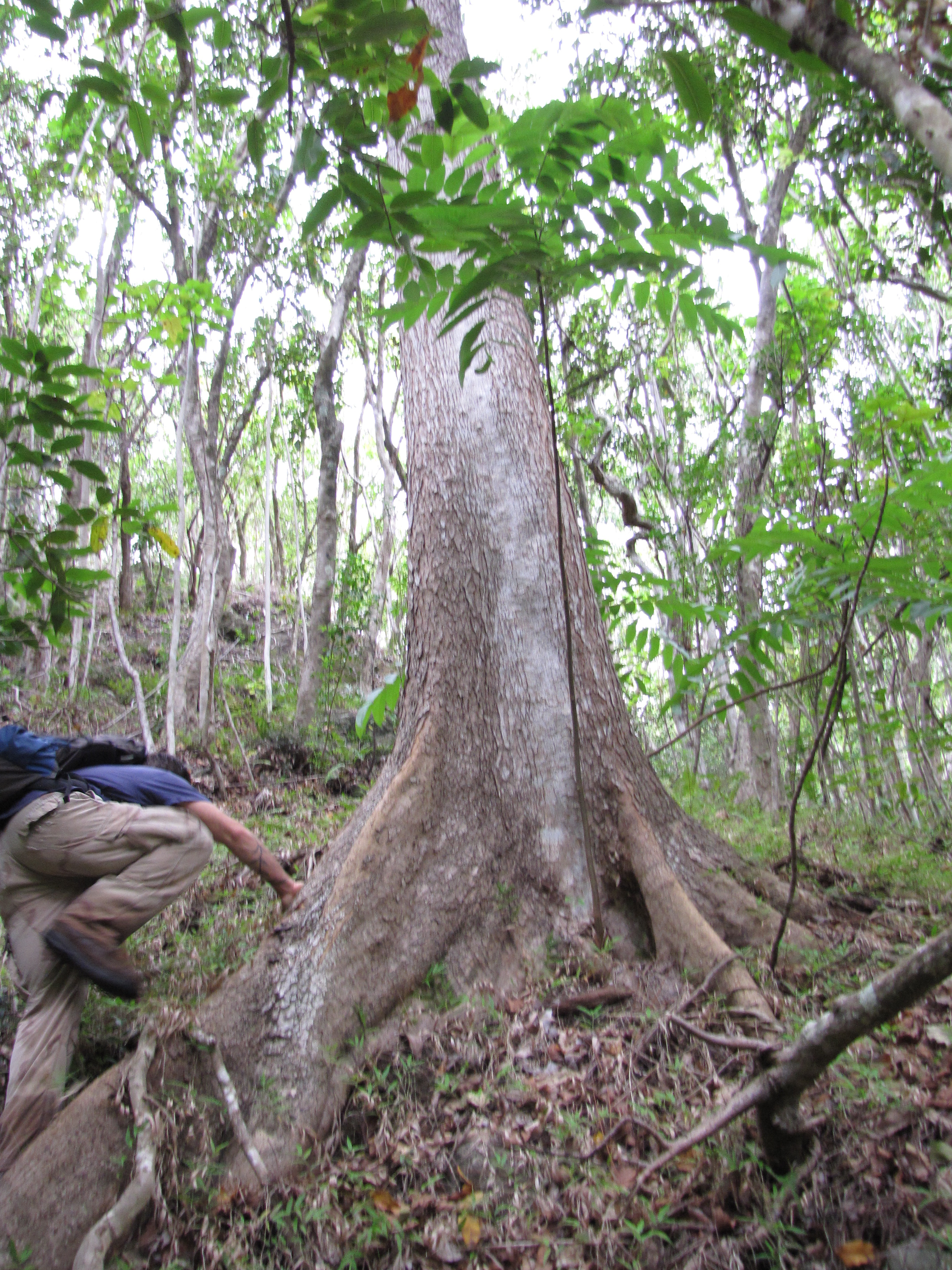 Toona ciliata (Australian red cedar) Habit with Jeremy at Waikapu Valley, Maui, Hawaii. April 25, 2012 #120425-4784 Image Use Policy